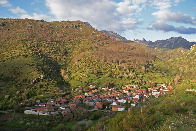 A view of Argovejo